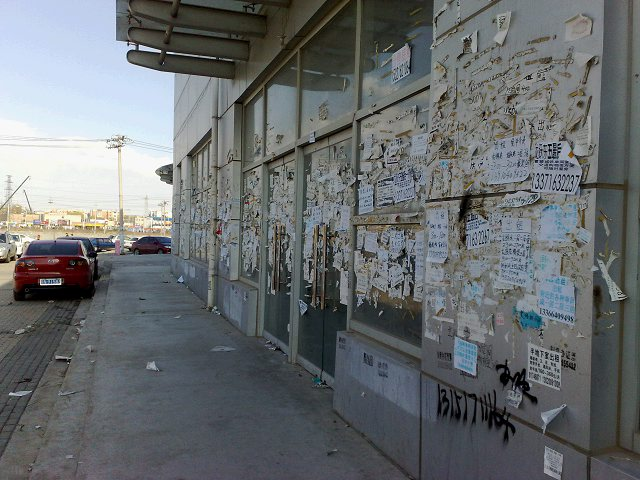 Subway Line 13 Huoying Station of Beijing, PRC